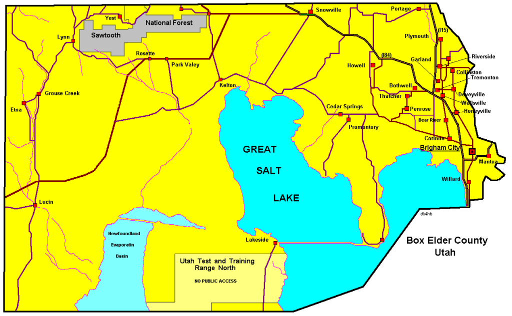 Map of Box Elder County, Utah, United States.